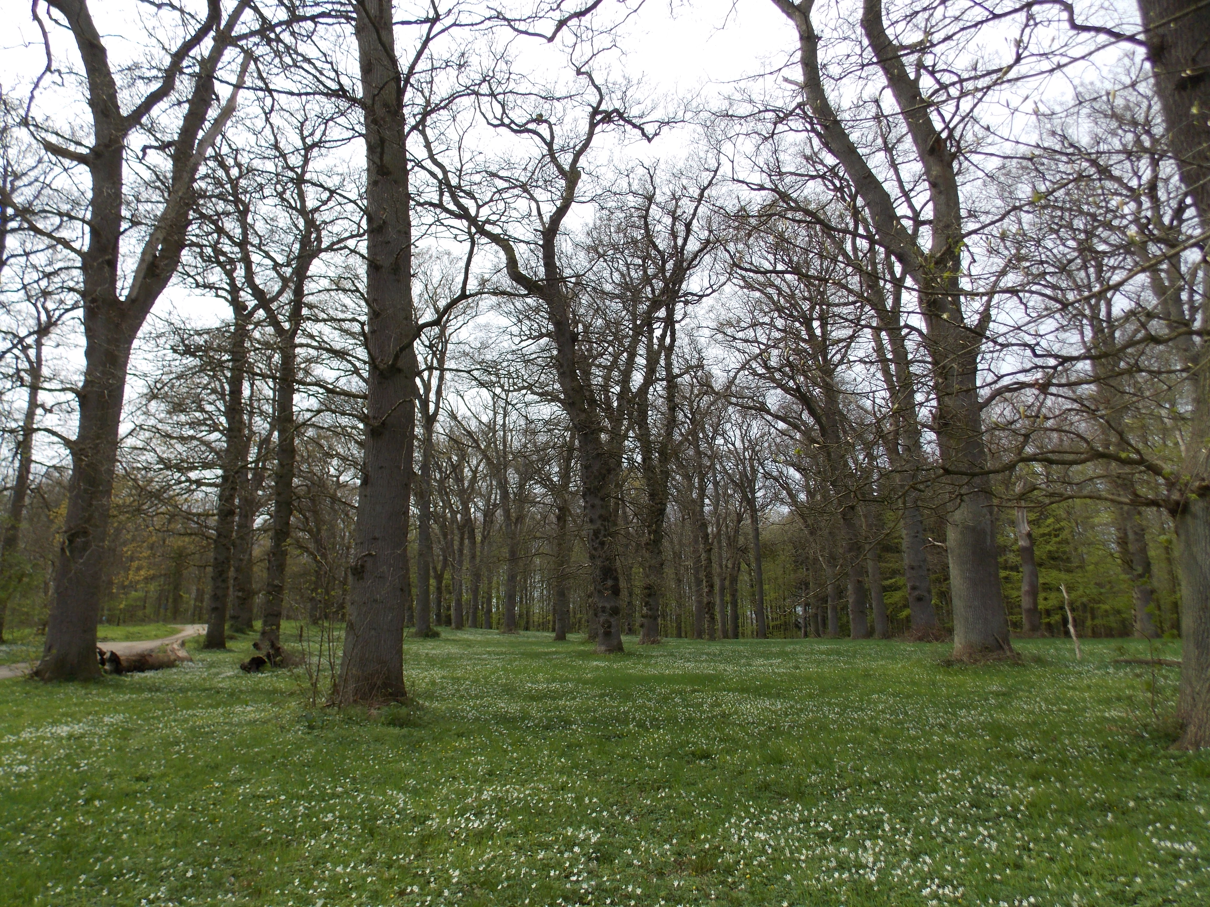 Bridegroom oaktrees ind the Nørreskov, Als, Denmark